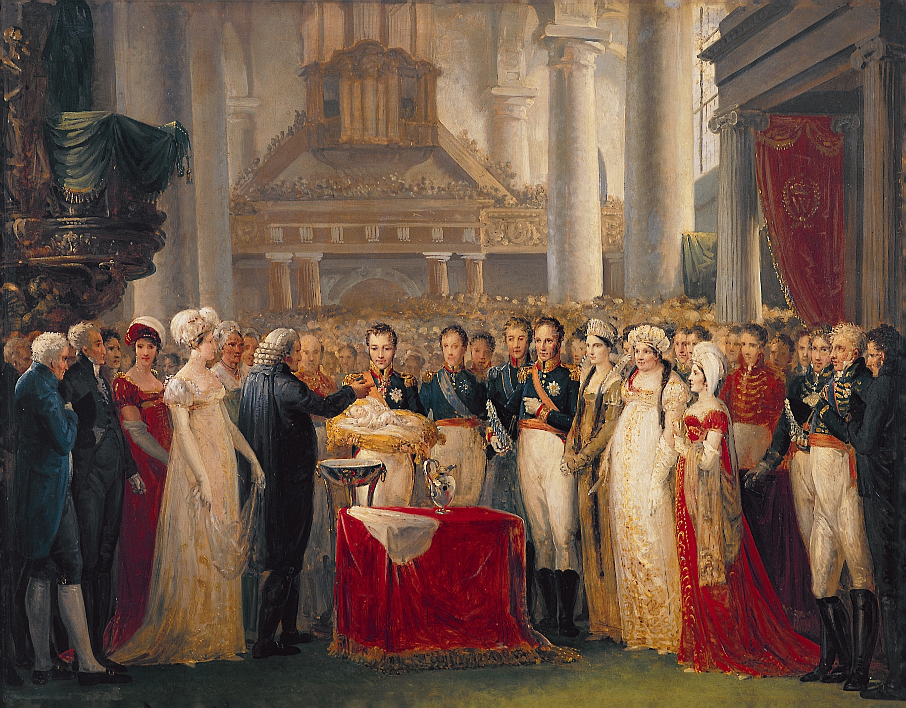 Baptism of William III of the Netherlands in the Augustine Church, Brussels